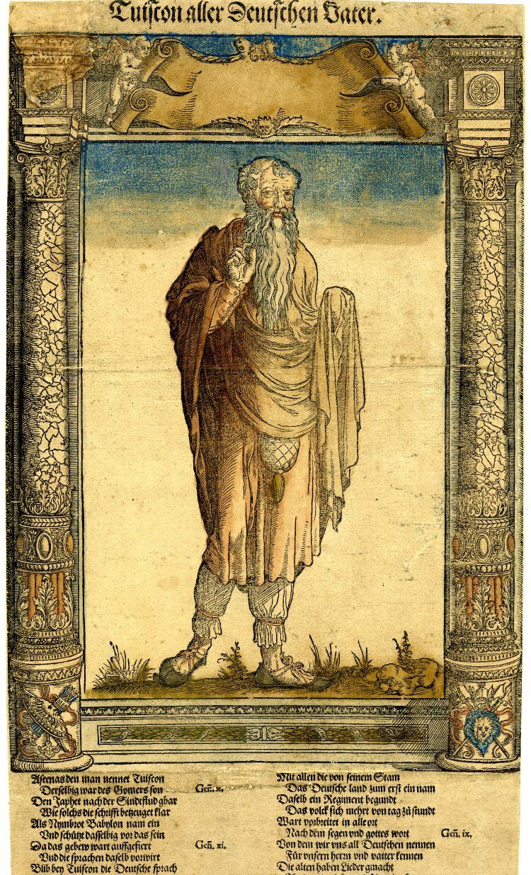 Broadside on the mythical Germanic patriarch Tuiscon, depicted here as a whole-length, standing figure wearing a pale cloak and a long, white beard. A dense mass of clouds nearly fill the sky behind him. The scene is a hand-cloured woodcut by Nikolaus Stör, bounded by a columns and other architectural elements illustrated by Peter Flötner. The legend below is a letterpress verse by Burkhard Waldis. One print in a series of 12 broadsides on early Germanic kings.